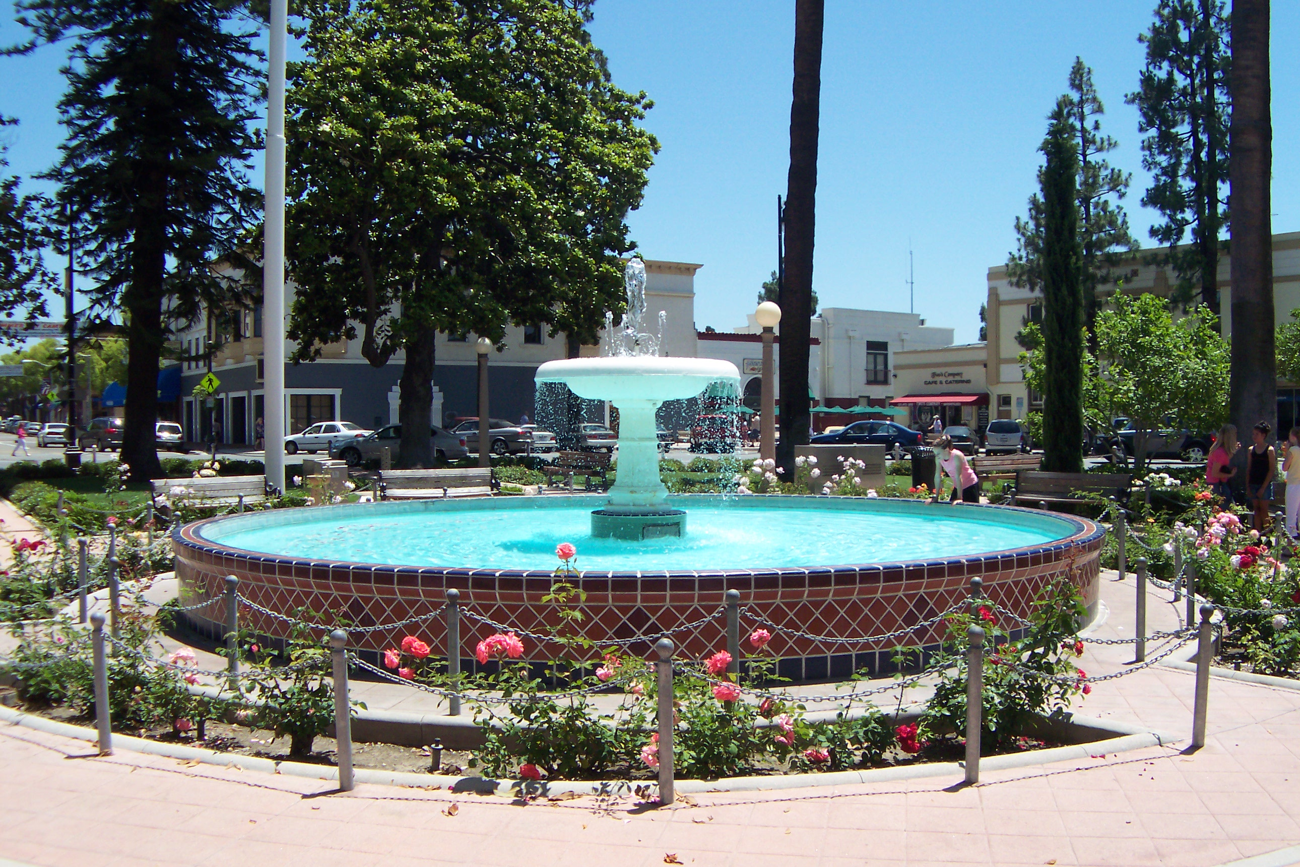 The fountain at Orange Plaza. Photograph by Robert A. Estremo, copyright 2005.